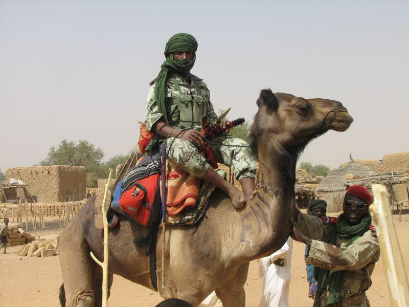 This military camel and rider will spend the day and night in the bush, keeping things peaceful.